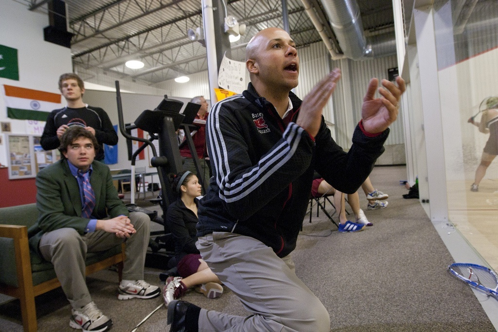 Head Coach, Bates College Squash Teams